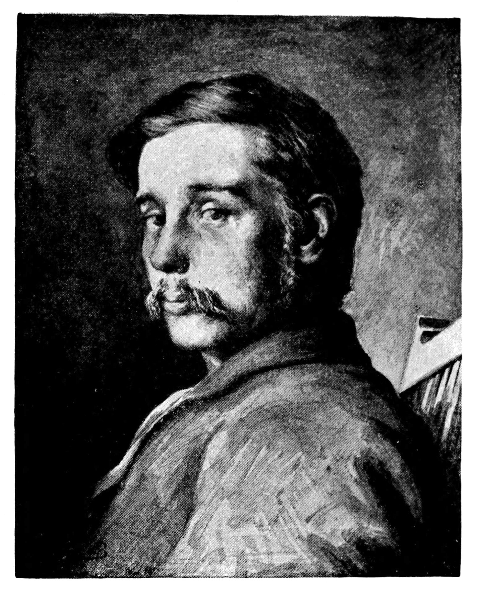 H. G. Wells - pg. 6 of War of the Worlds.